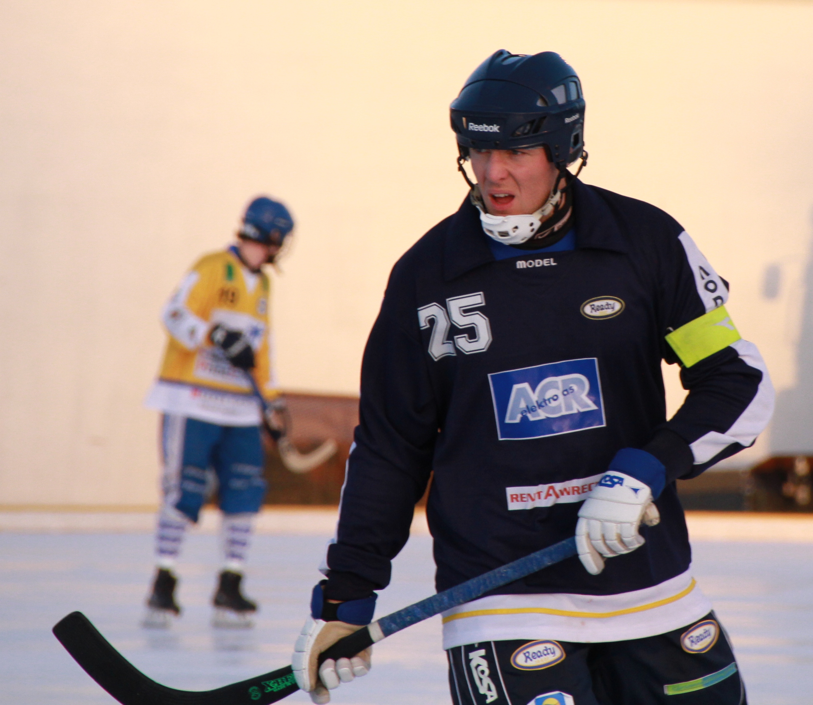 Bandy player representing Ready Bandy, Oslo (Norway). Photo from gressbanen Arena, December 26, 2011.